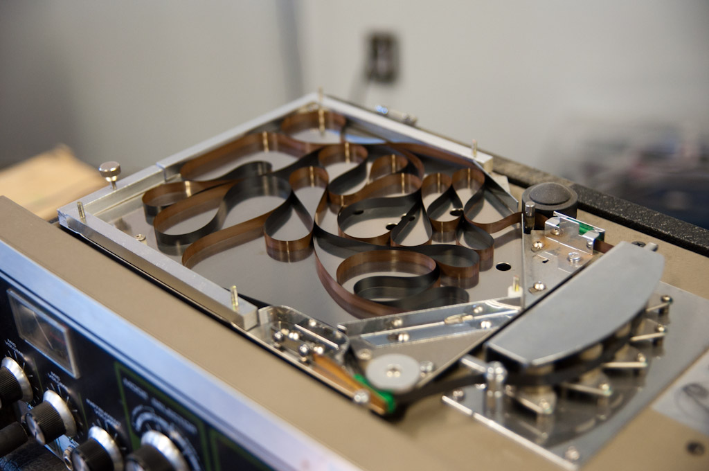 Roland RE-101 Space Echo [inside of echo machine] looped tape, capstans, and multiple magnetic heads for multiple echos 2011-04-26 kwartzlab Tuesday Open Night